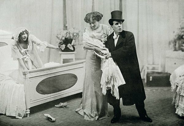 Iris Hoey as Zoie, Lilias Waldegrave as Aggie and Weedon Grossmith as Jimmy Jinks in Baby Mine, Criterion Theatre, London, 22 February 1911. The photo is taken during the scene where Zoie says, "Let's see it. Oh, isn't it ugly! Oh Jimmy!"